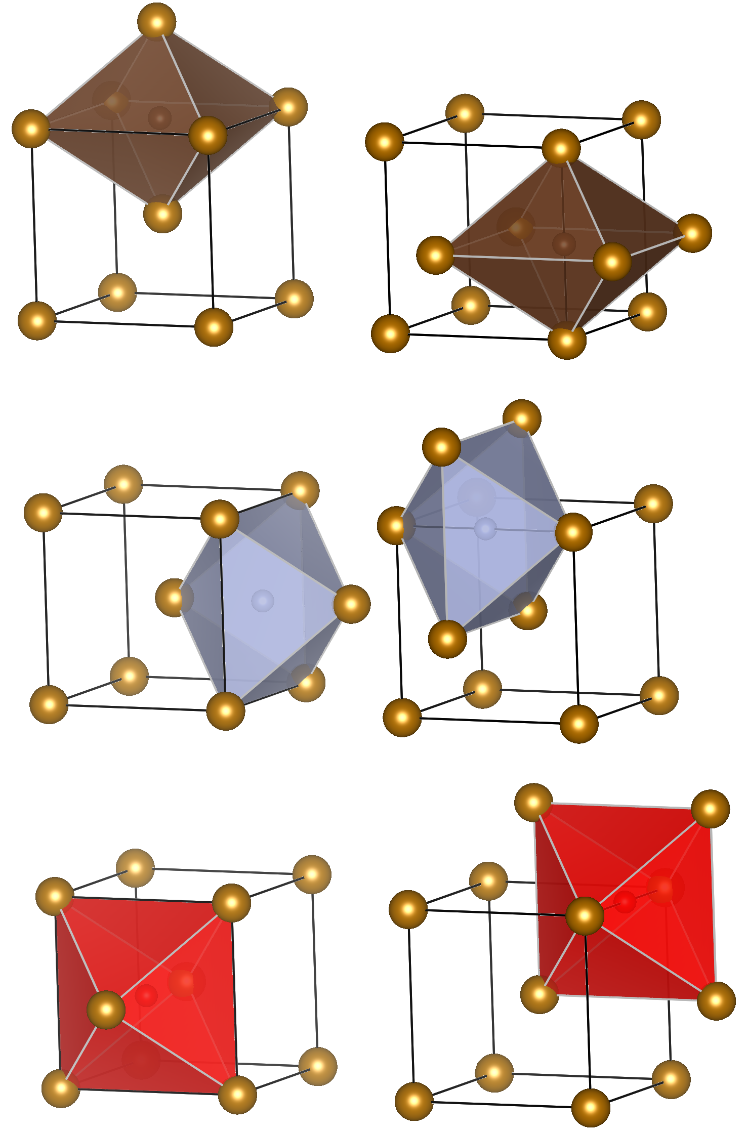 This sketch pictures a body-centered cubic crystal structure with representative examples of octahedral sites occupied by an interstitial atom. Octahedra of the same color have their short axis oriented in the same direction, along one of the three principal directions of the cube.